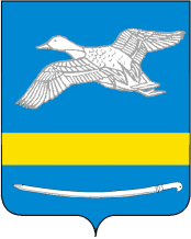 Coat of arms of Yekaterínovka, Shcherbinovski raion, Krasnodar Krai, Russia.